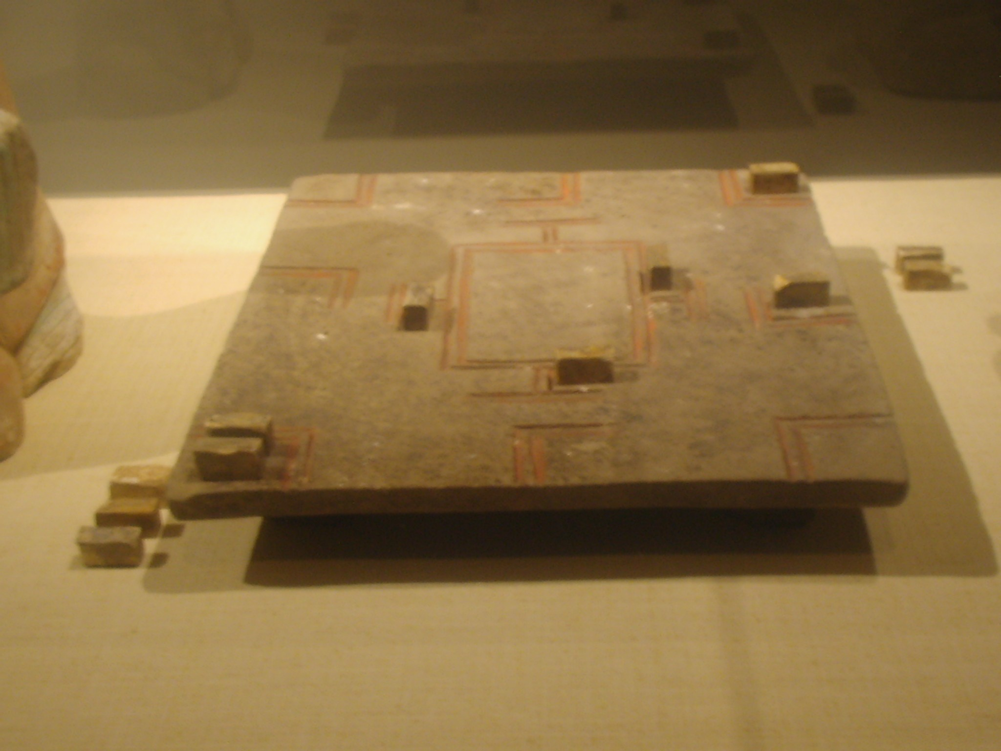 A model Liubo board game with two figures on both sides gambling (unseen in this photo), made during the 1st century in the Chinese Eastern Han Dynasty (25–220 AD). The Metropolitan Museum of Art caption reads: A popular game in the Han Dynasty, liubo involves two players who gamble using dice, counters, gaming pieces, and a marked board. The pottery figures exhibited in this case, together with the daily utensils, architecture models, and luxury goods exhibited in the other cases in the gallery, were used as tomb furnishings in ancient China. The liubo players, who are depicted at a dramatic moment in a heated game, represent Han Dynasty people's leisure activities as well as their desired life in the other world.